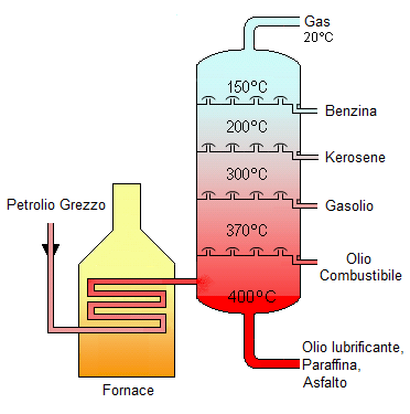 Diagram drawn by Theresa knott. This is a diagram of a typical, atmospheric pressure crude oil distillation tower used in petroleum refining (oil refineries).